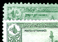 Postage stamps of Turkey with small armenian letters, 1913, 10 paras, fragment